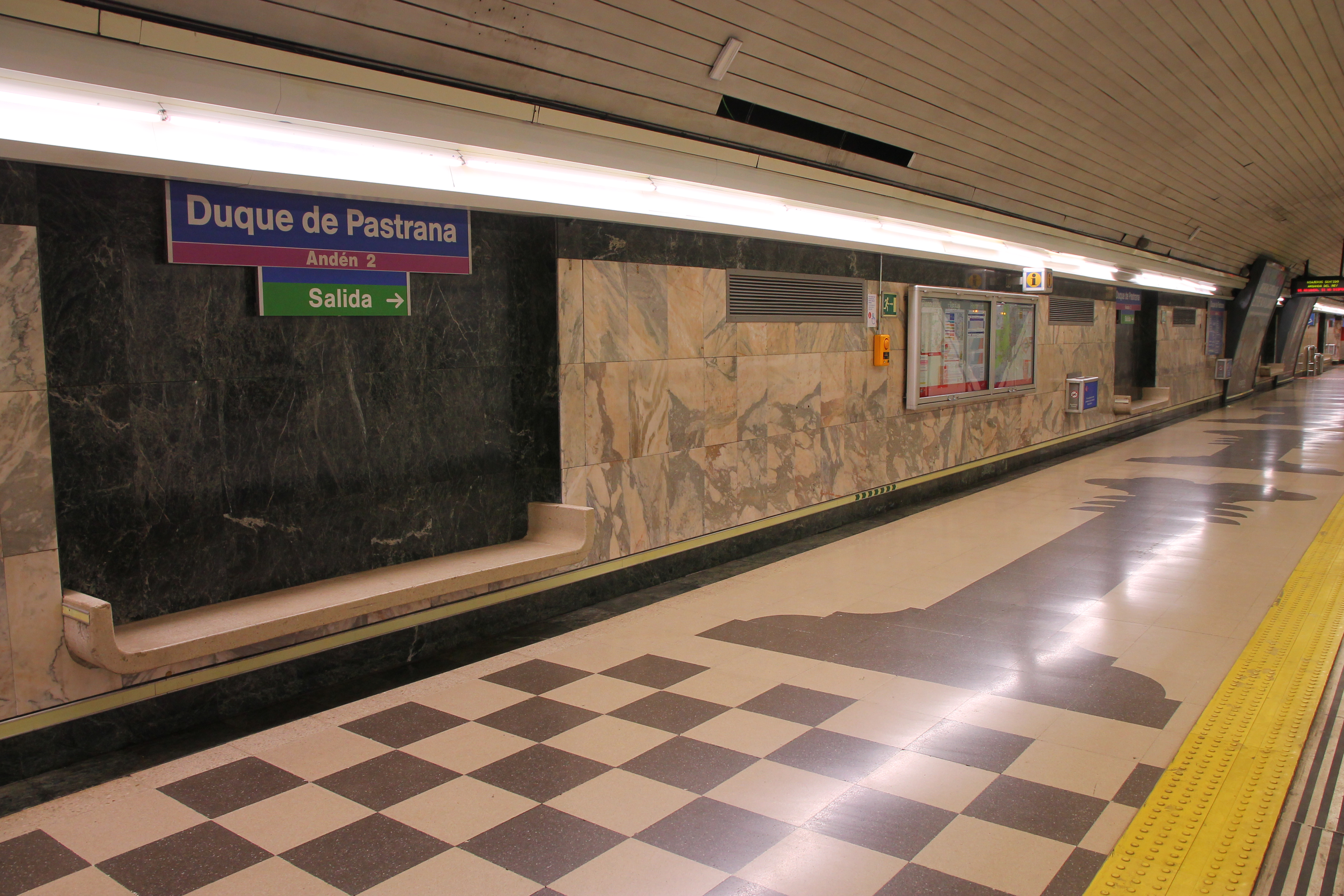 Estación de Duque de Pastrana